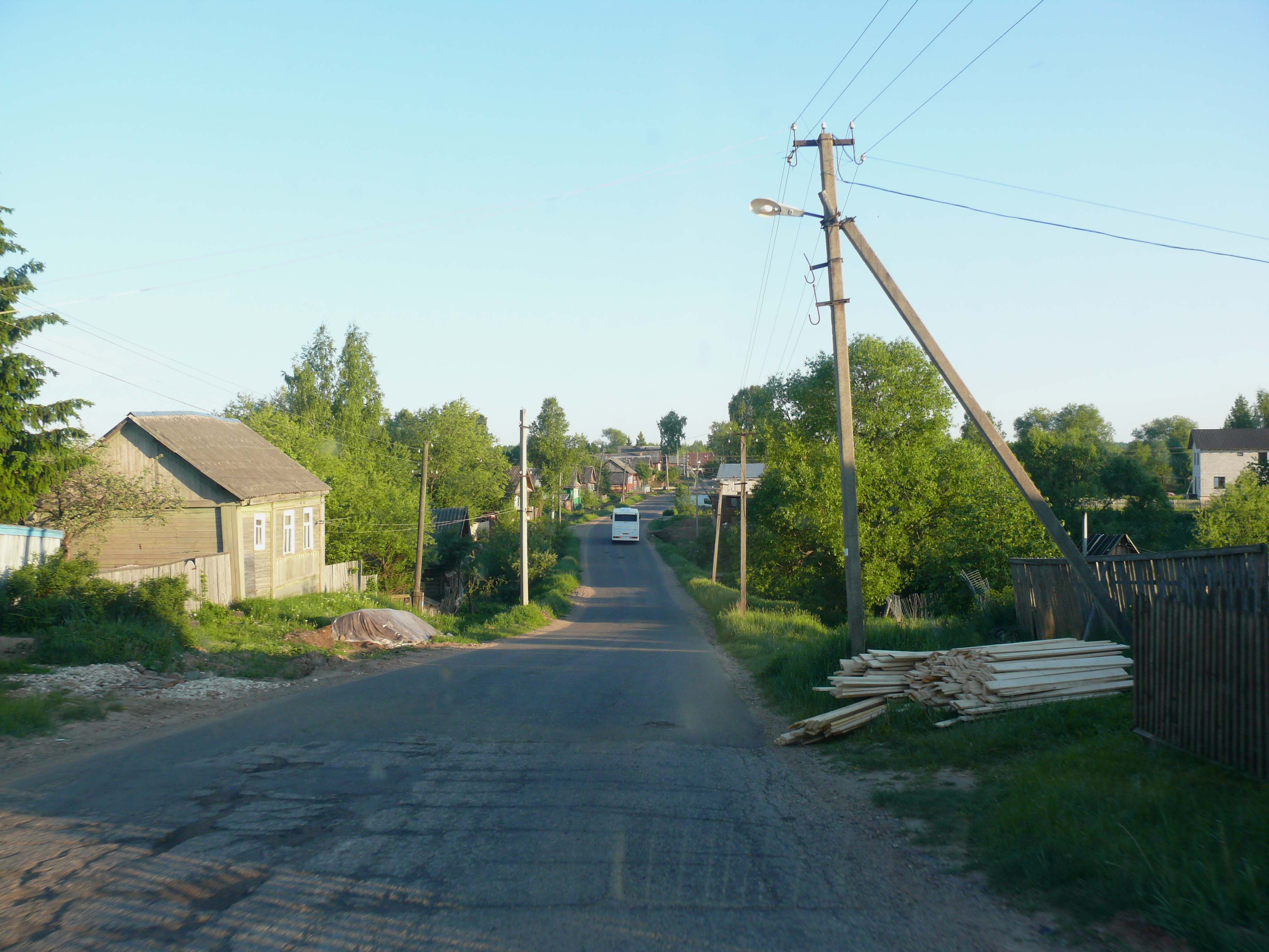 Shibotovo village. Borovichsky district, Novgorod oblast, Russia